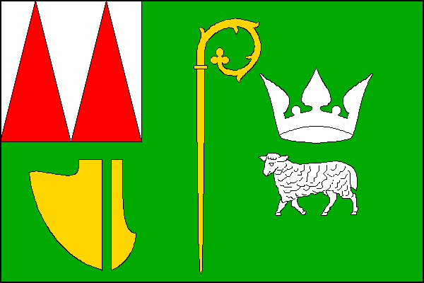 Municipal flag of Loučka village, Vsetín District, Czech Republic.